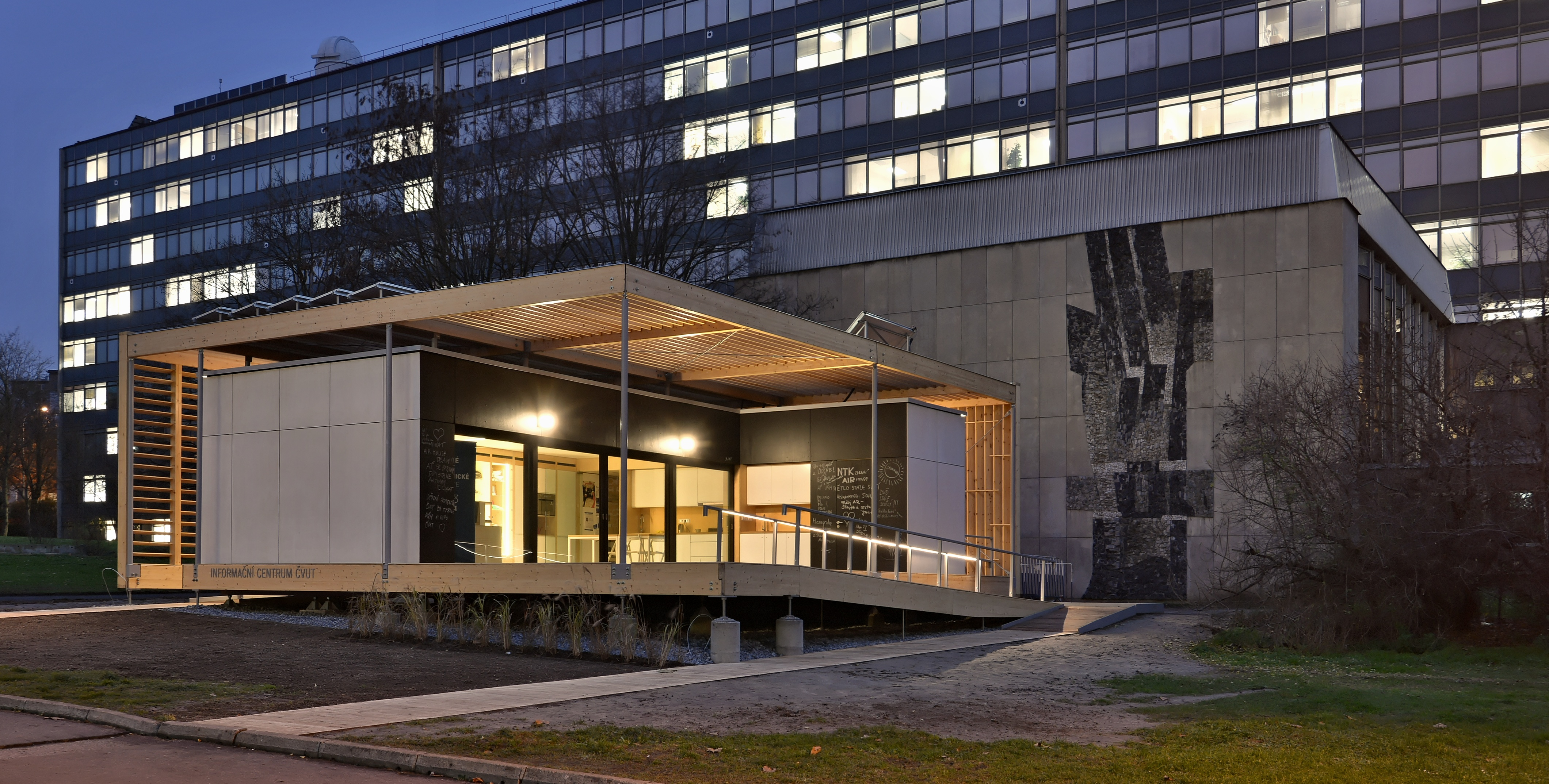 New Information Centre of the CTU in AIR House in CTU campus, Prague.